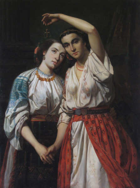 Uniting of the Principalities